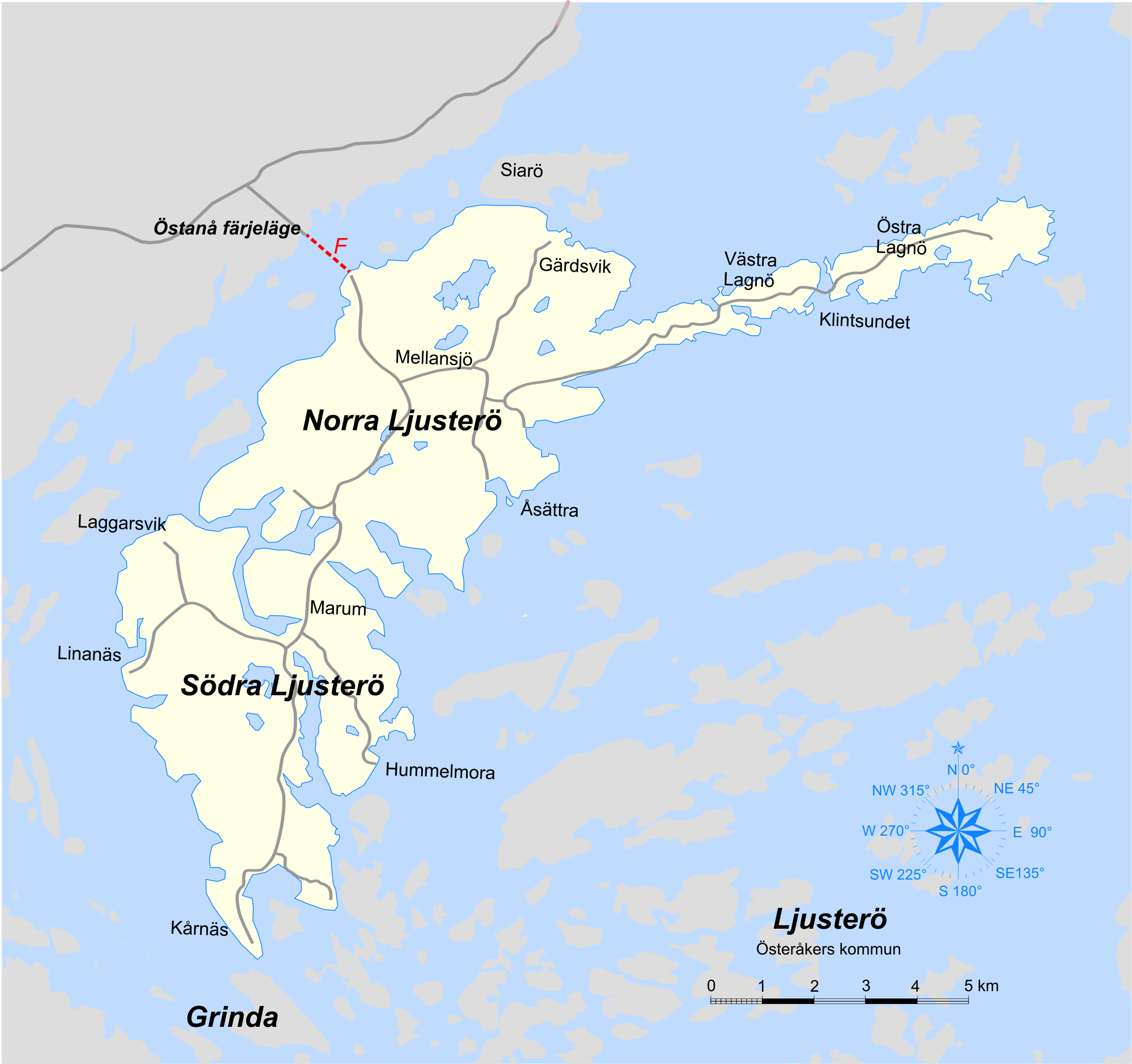 Ljusterö, Sweden and surrounding larger islands.